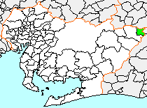 Modified by me from Wikipedia's file